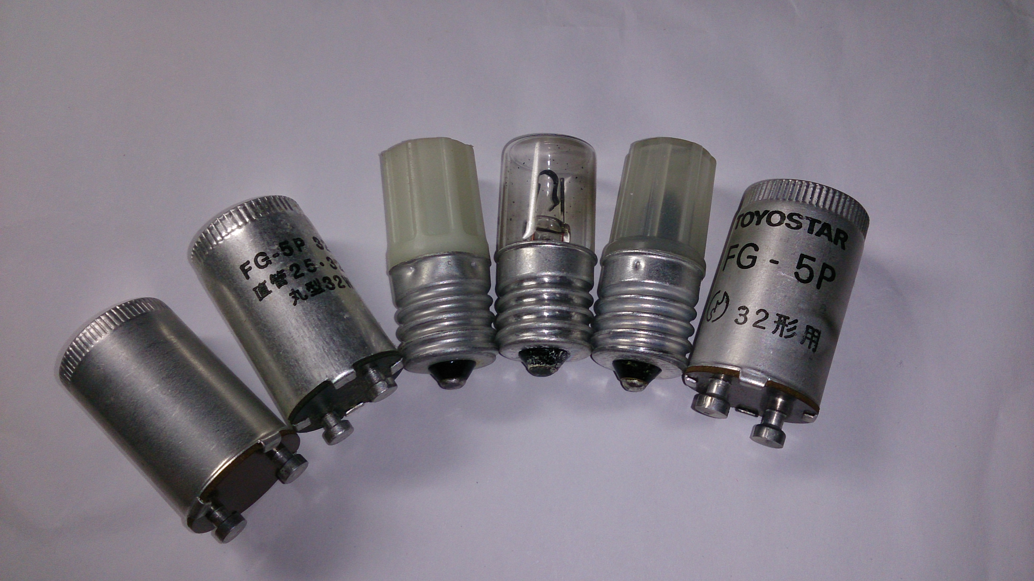 Various types of Glow starter. FG-1E, FG-5p etc...